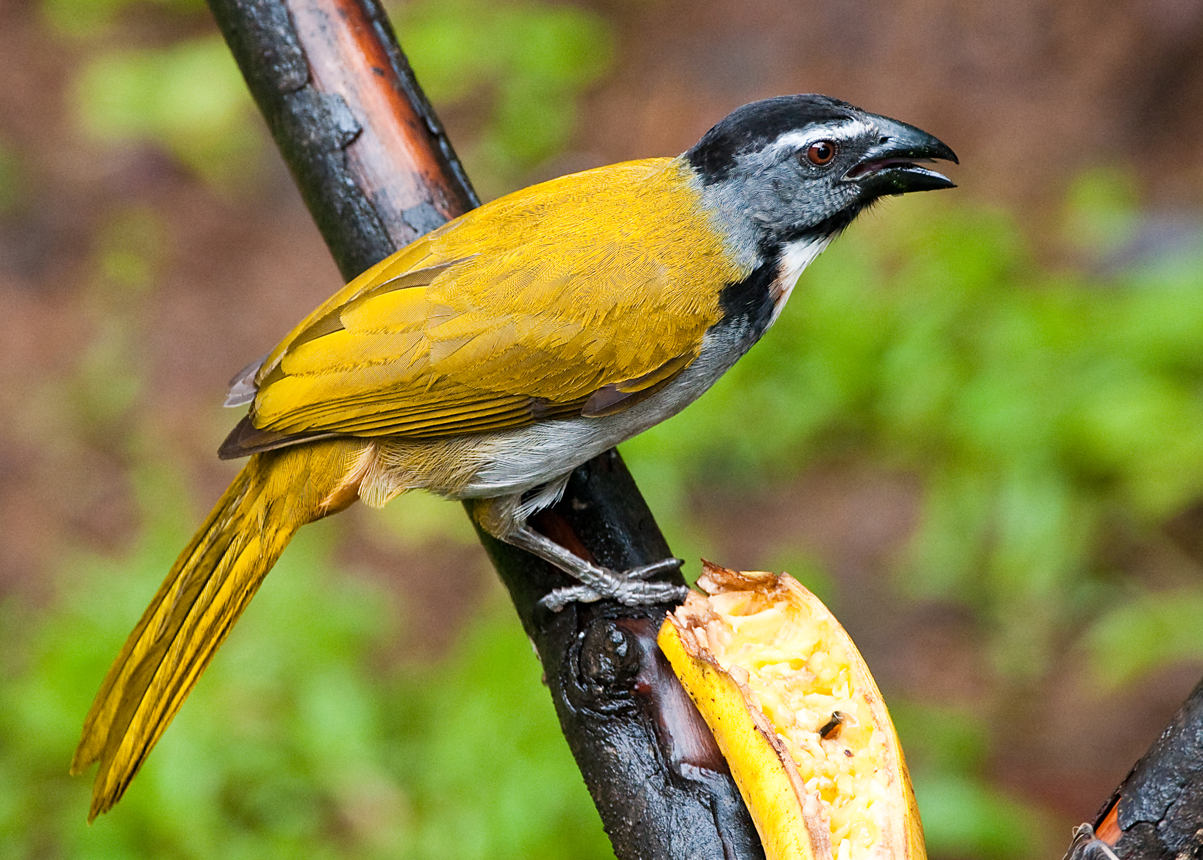 A Black-headed Saltator near Rancho Naturalista, Cordillera de Talamanca, Costa Rica.